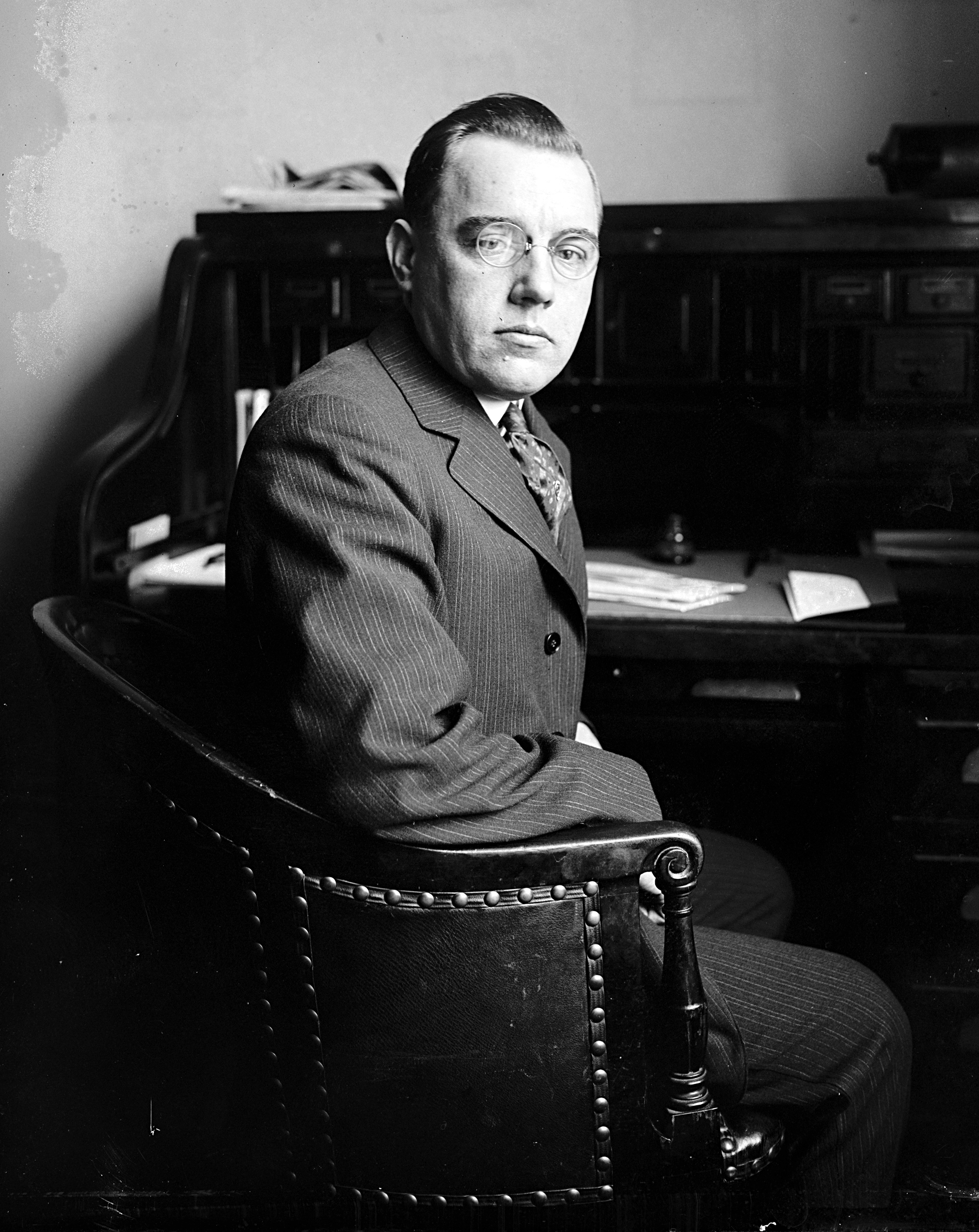 Gale H. Stalker, US Representative from New York